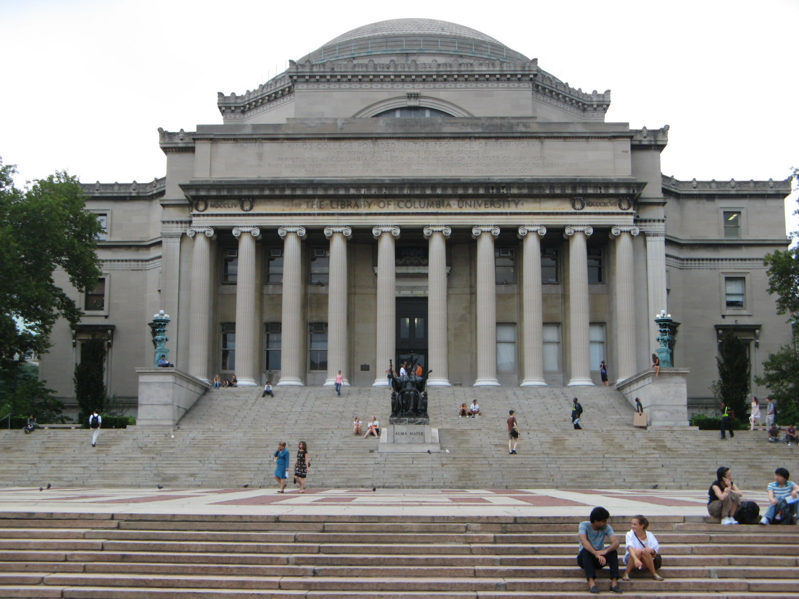 Low Library on campus.